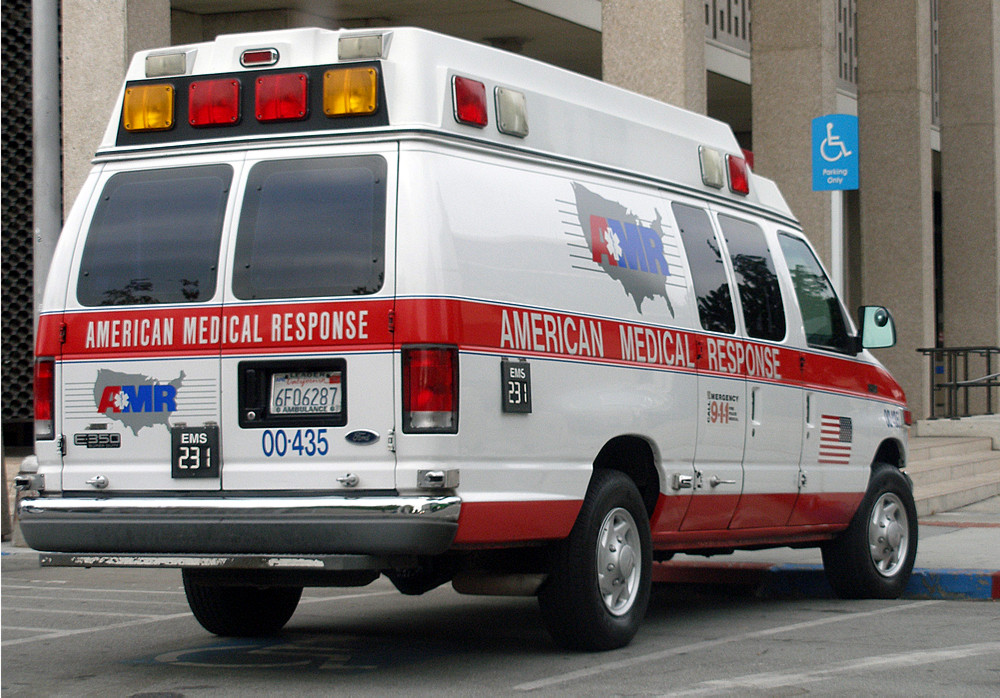 An American Medical Response ambulance in Redwood City. Photographed on September 15 by user Coolcaesar.